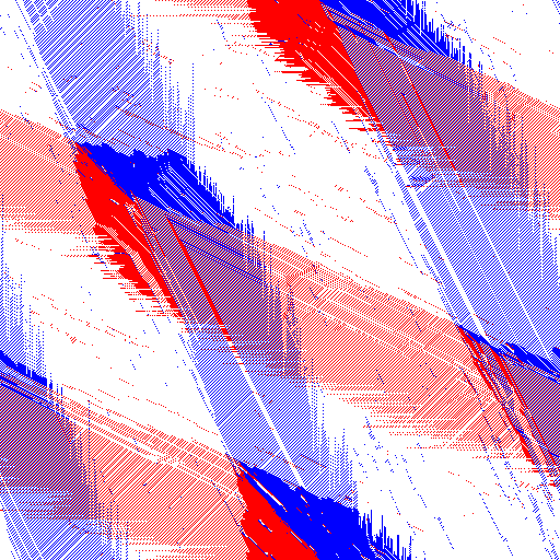 A lattice for the Biham-Middleton-Levine traffic model after 64000 iterations. The lattice is 512 by 512, with a traffic density of 33%. The red cars and blue cars take turns to move; the red ones only move rightwards, and the blue ones move downwards. Every time, all the cars of the same colour try to move one step if there is no car in front of it. The initial position before running is shown in File:Bml x 512 y 512 p 33 iterated 0.png. The graph of mobility versus time (mobility is the number of cars that can move in a particular turn) is shown at File:Bml x 512 y 512 p 33 MOBILITY.png. This was created with C++. Source code is located at user:Purpy Pupple/BML.